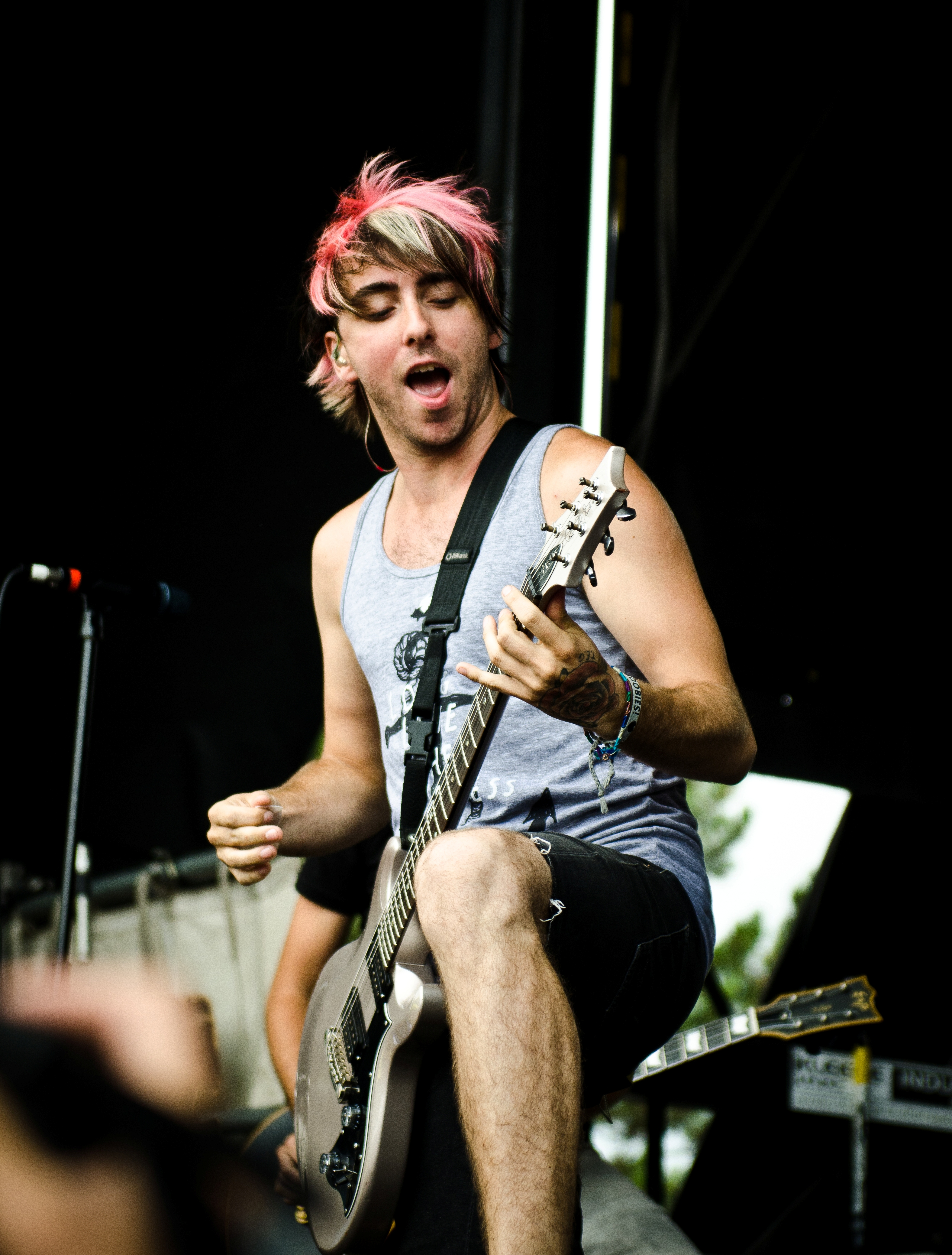 Alex in the Vans Warped Tour 2012.